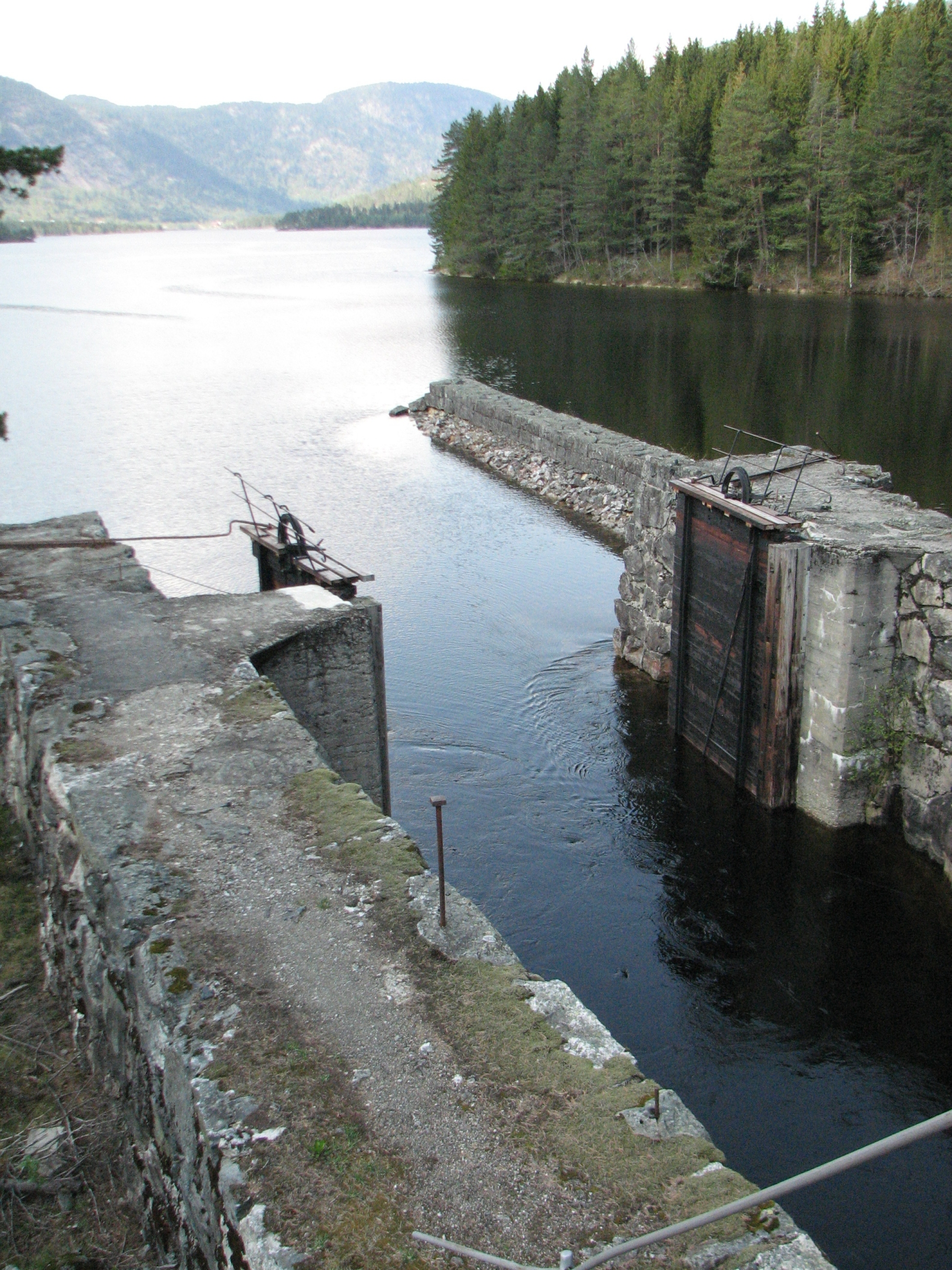 Storestraum, Otra towards Ose (north of Bygland)